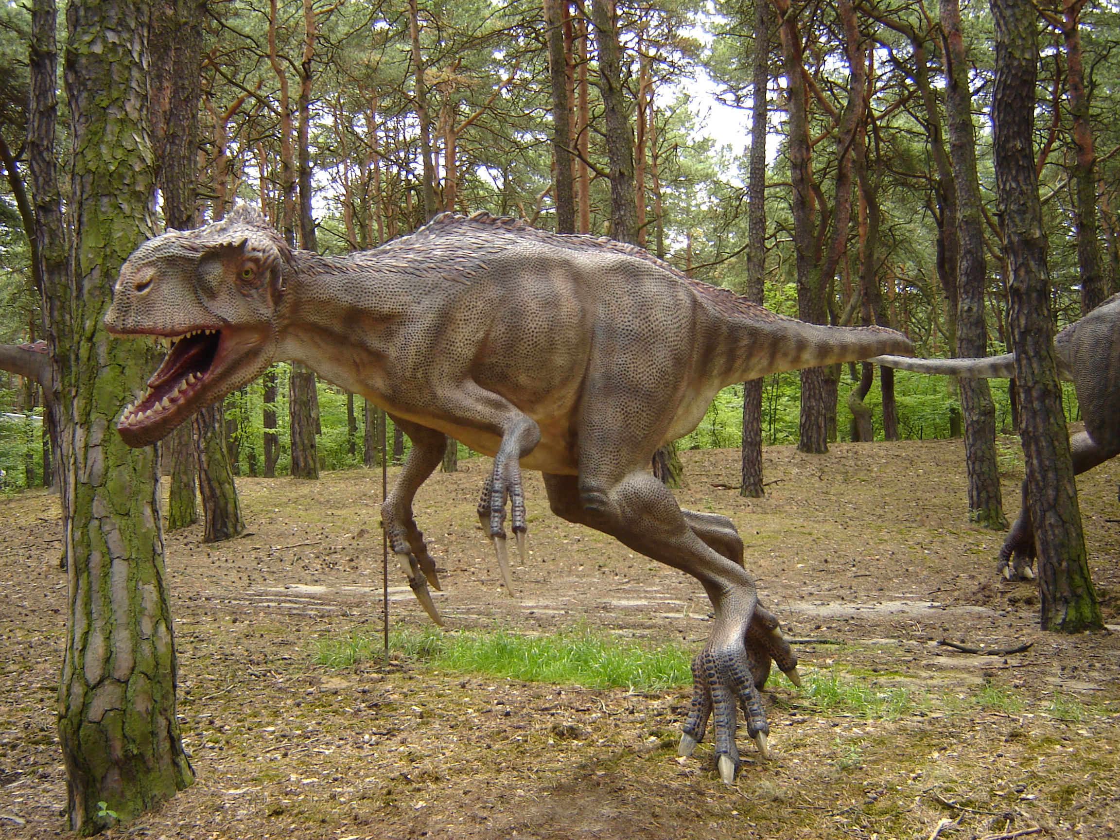 Model of eotyrannus in JuraPark, Solec Kujawski, Poland